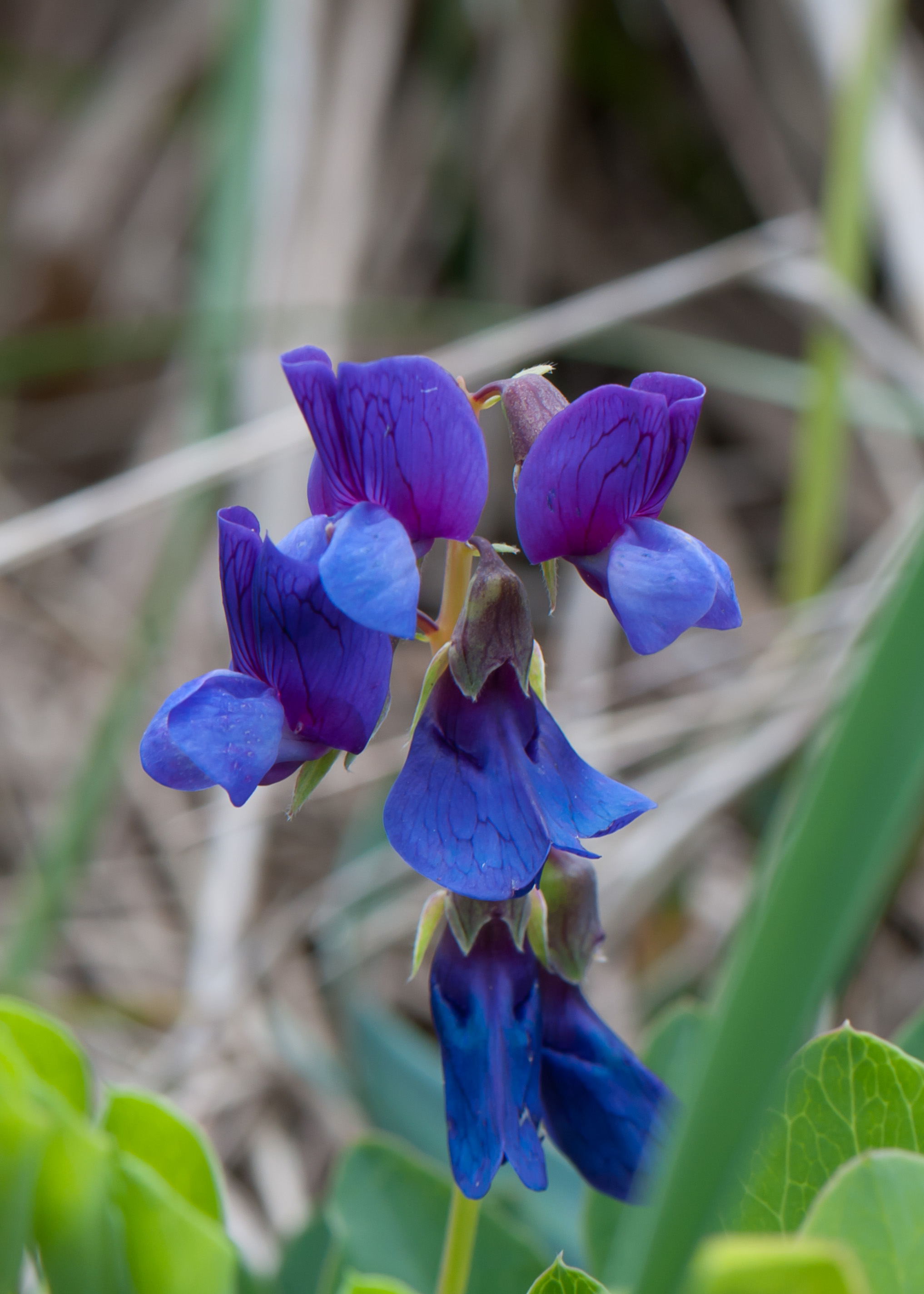 Common Beach Pea, Lathyrus japonicus